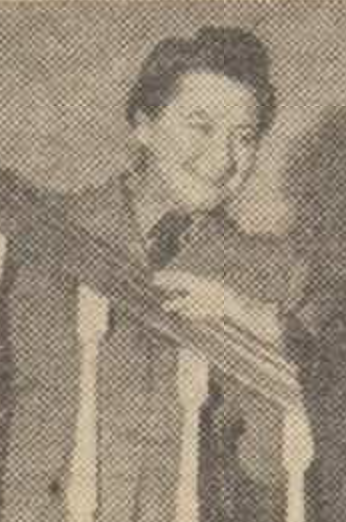 Aileen Elizabeth Lynch (1898-1983) was an Australian public servant and Women's Land Army state Superintendent.